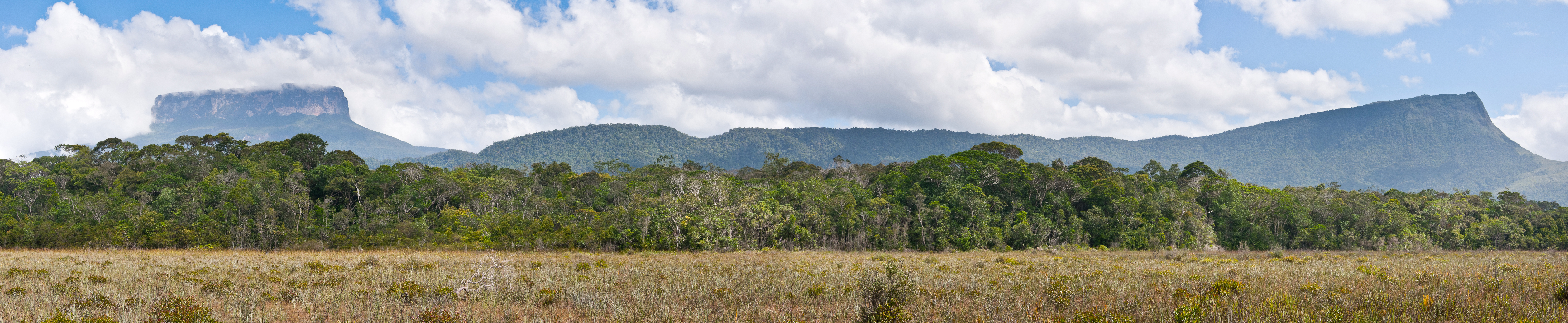 Panoramic view of Ptarí and Sororopán tepuis in Gran Sabana, Venezuela.